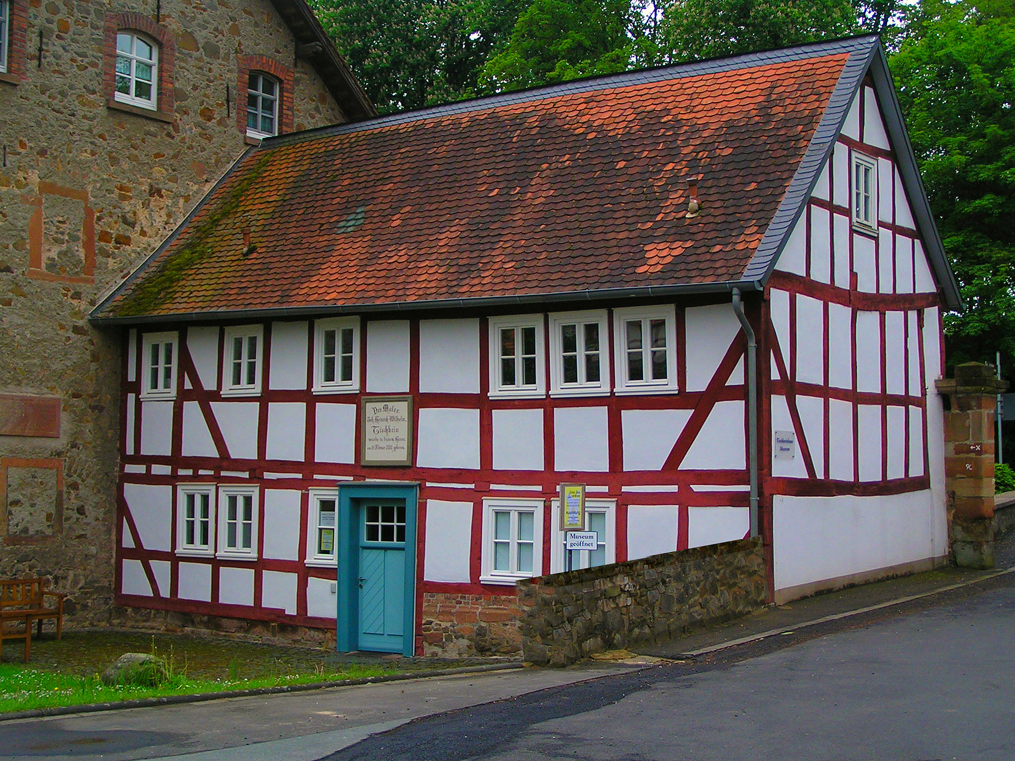 The house where Tischbein was born in.